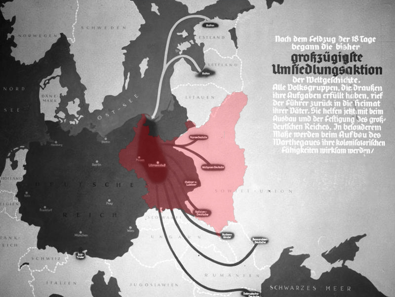 Nach dem Feldzug der 18 Tage begann die bisher großzügigste Umsiedlungsaktion der Weltgeschichte. Alle Volksgruppen, die Draußen ihre Aufgaben erfüllt haben, rief der Führer zurück in die Heimat ihrer Väter. Sie helfen jetzt mit beim Ausbau und der Fertigung des großdeutschen Reiches. In besonderem Maße werden beim Aufbau des Warthegaues ihre kolonisatorischen Fähigkeiten wirksam werden. Information added by Wikimedia users.Genuine Nazi German propaganda poster, superimposed with the outline of Poland missing from the original, as if the country vanished from the map of Europe even though borders of other countries have been marked with dotted white lines. Showing origins of German colonists resettled during the "Heim ins Reich" action from the east into territories annexed from Poland after the Nazi-Soviet invasion of the Second Polish Republic in 1939.